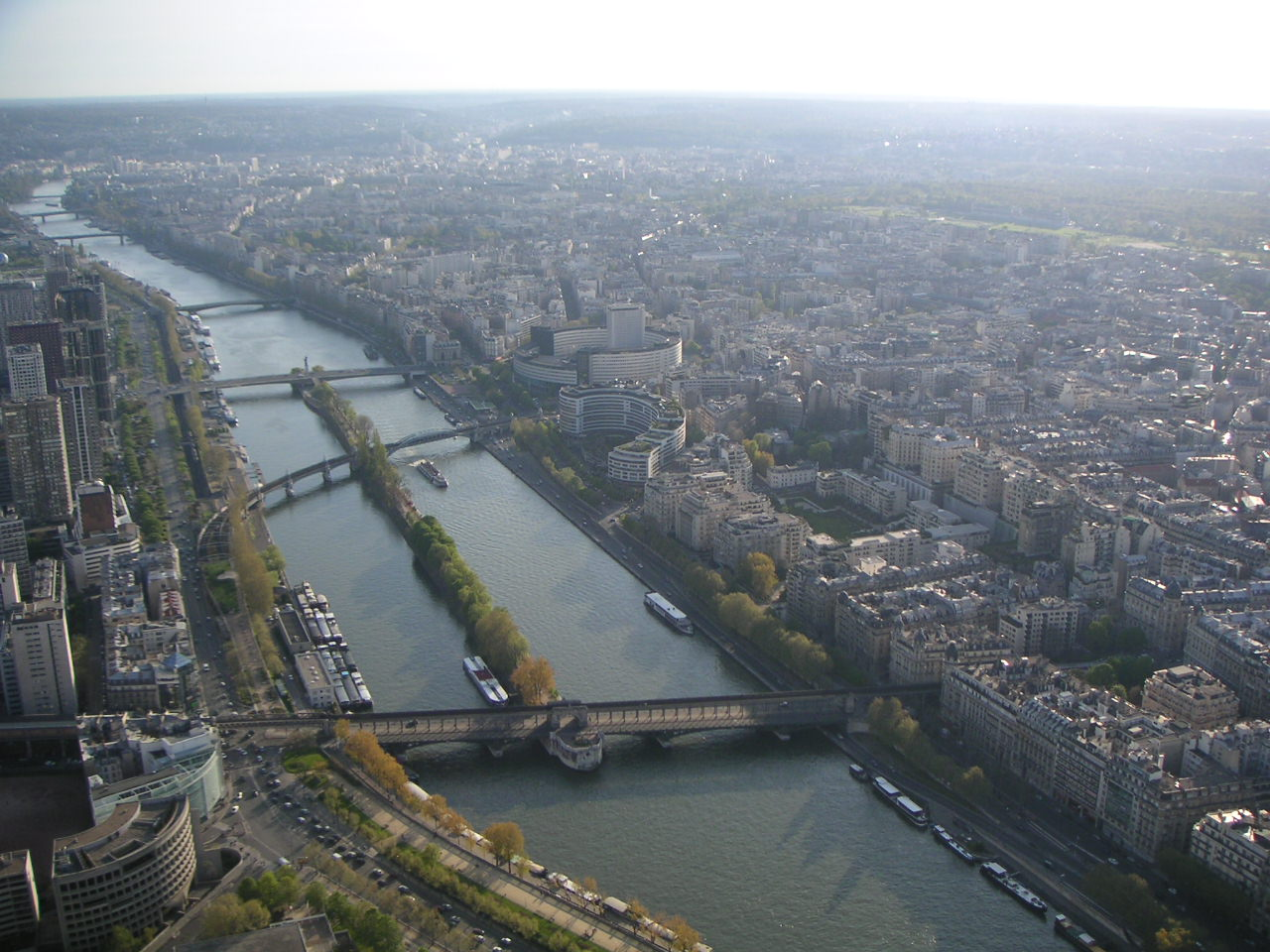 View from the top of the Eiffel Tower: Seine River, Pont de Bir-Hakeim, Île aux Cygnes